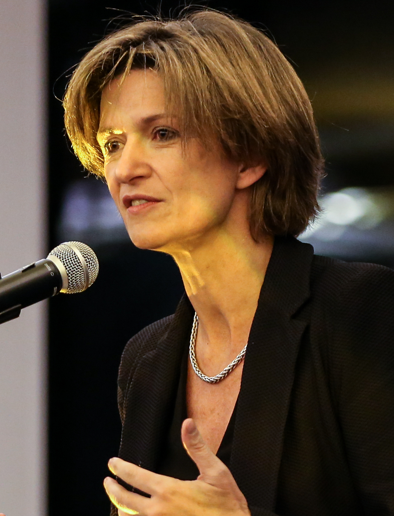 Isabelle Kocher, CEO of Engie and sponsor of École Polytechnique's very first "Executive Master" promotion, giving a speech during the graduation ceremony.